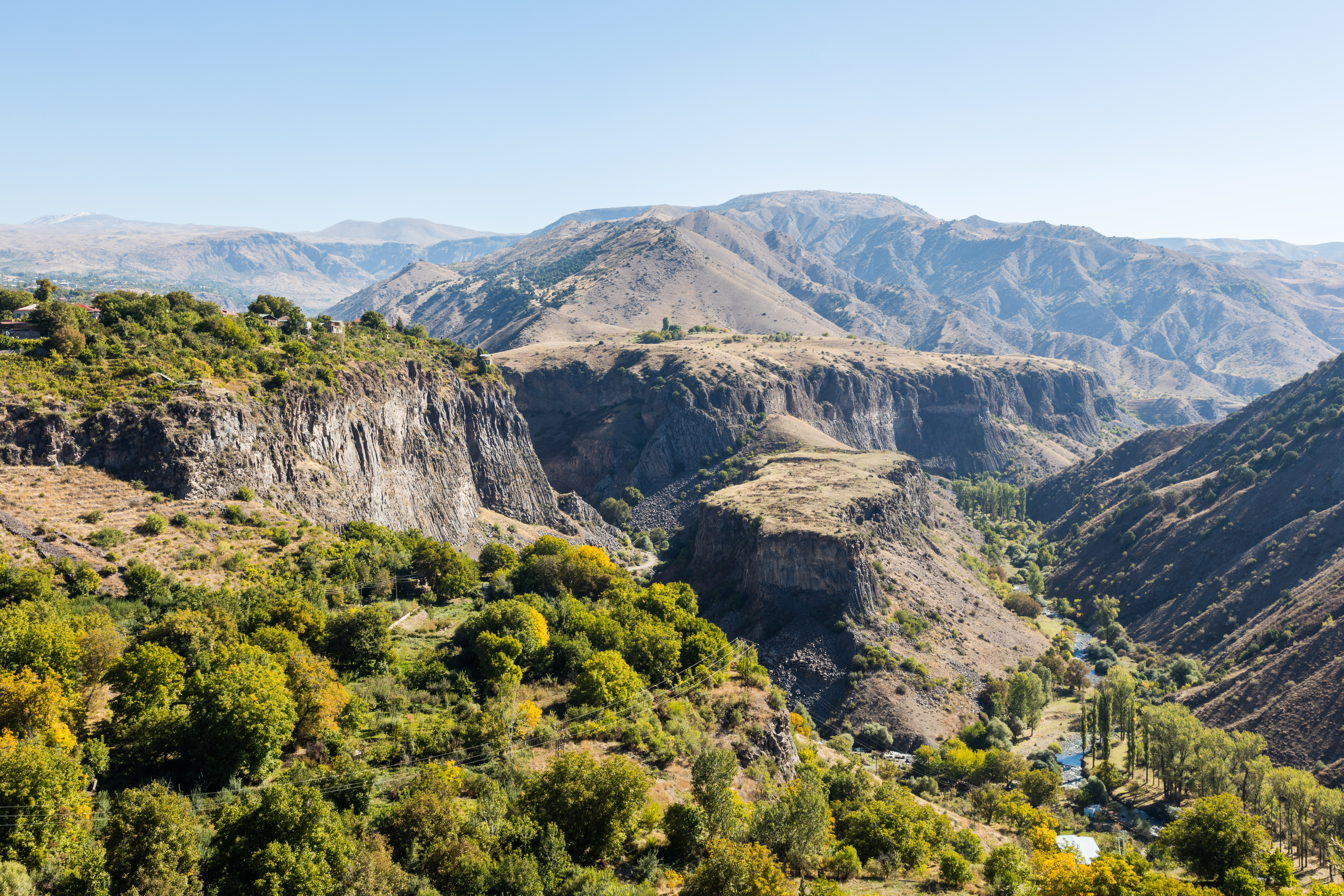 Garni Valley, Armenia